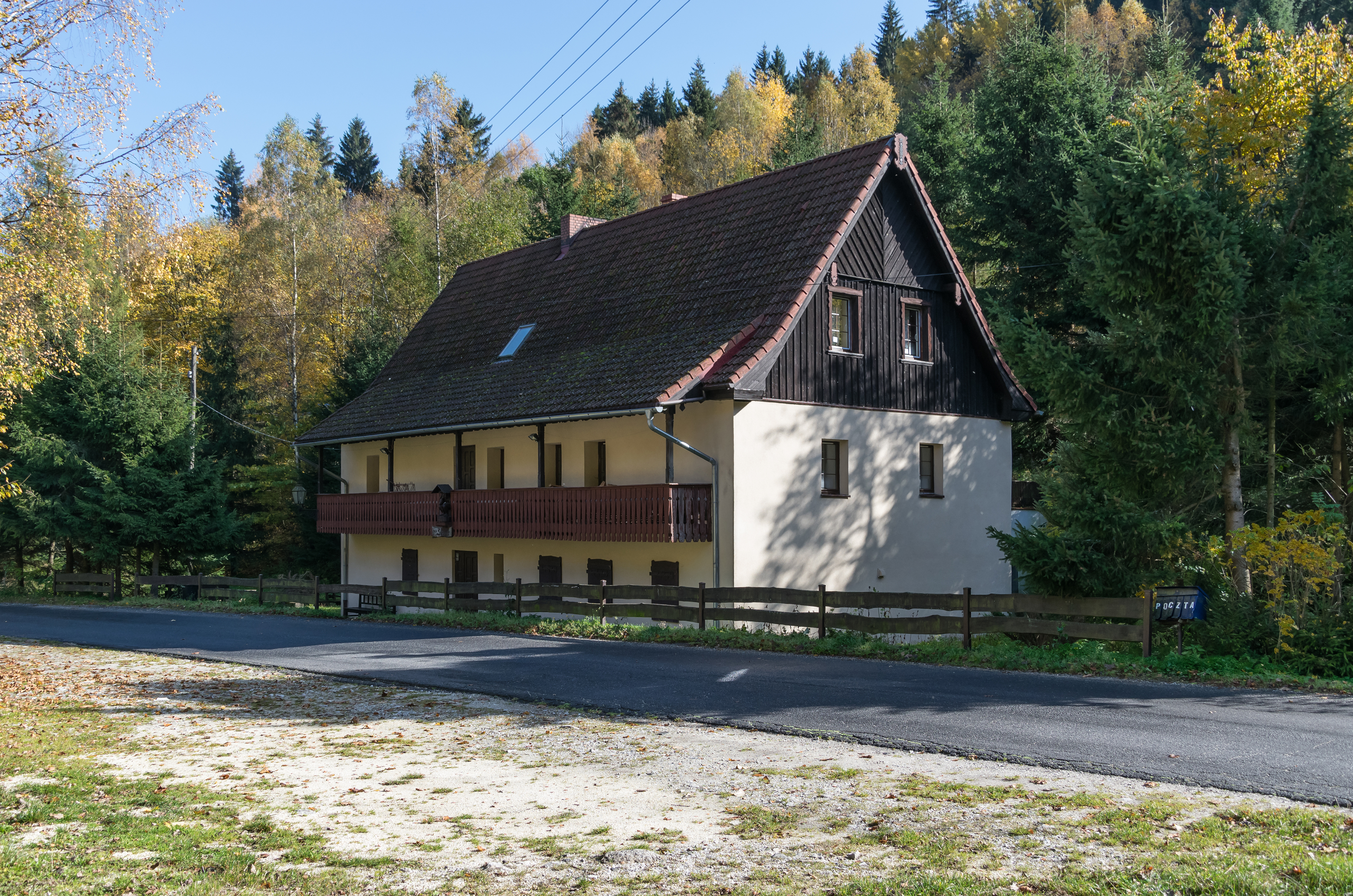 House No. 13 in Kletno